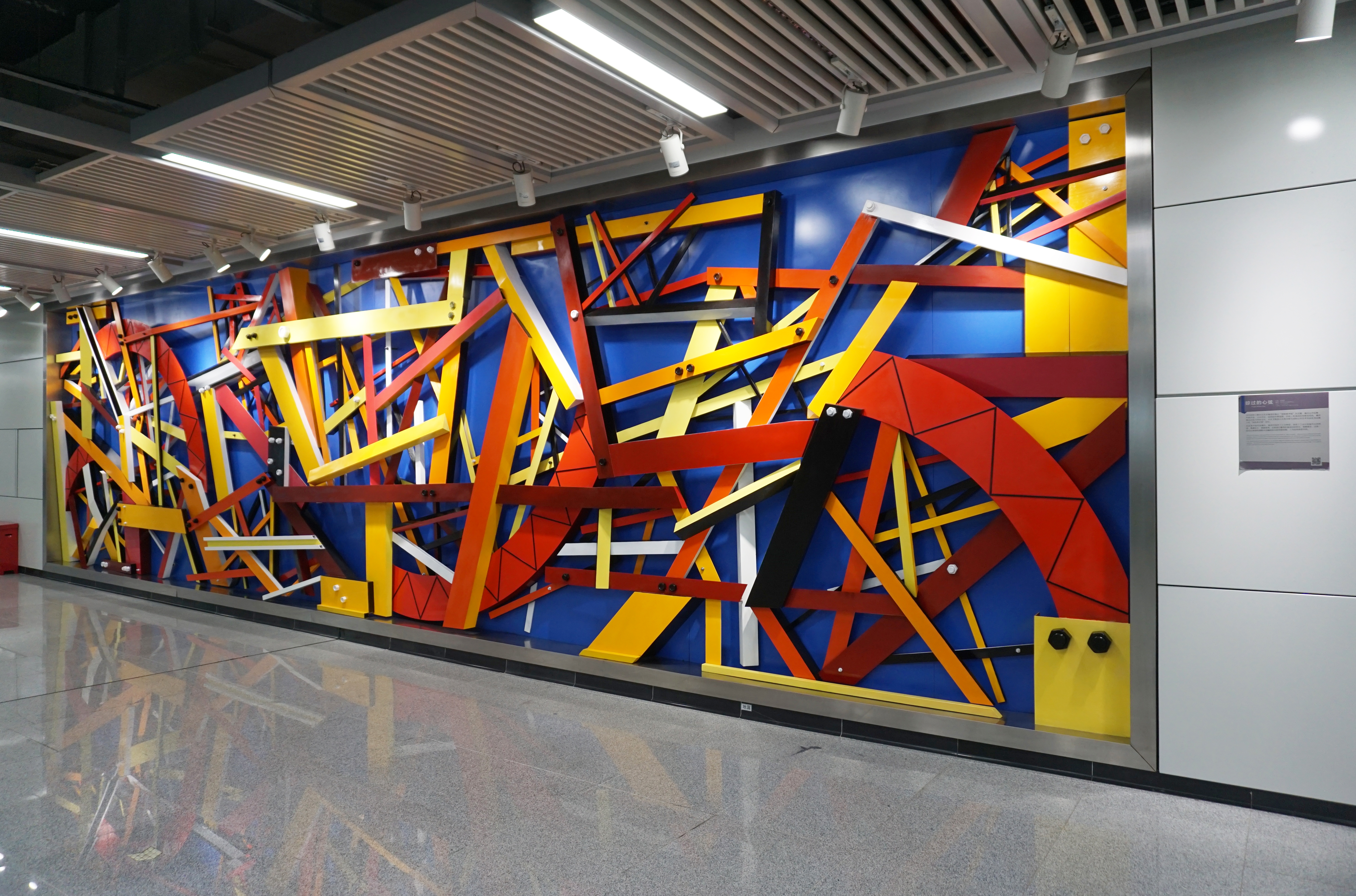 Huanggangcun Station in Futian District, Shenzhen.